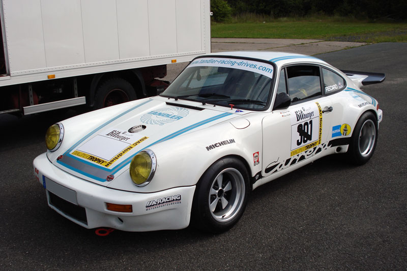 Foto shows an Porsche Carrera RS 3.0. The Foto was taken at 15.06.2008 in Mainz on an Porsche-Event.